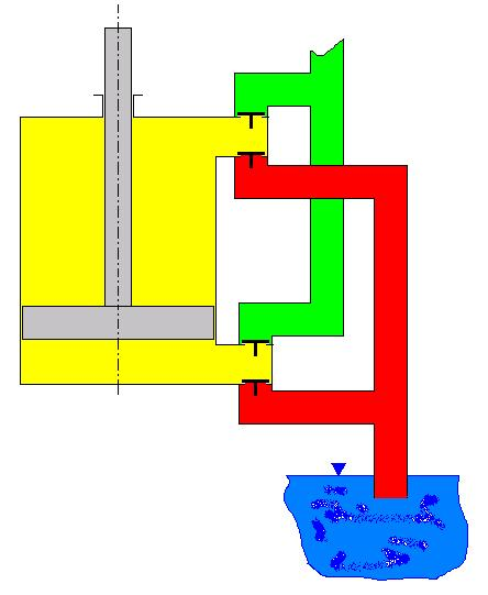 schematic description